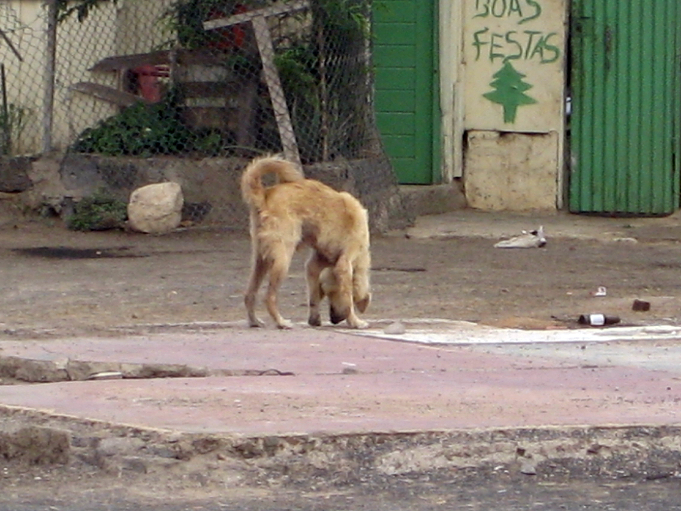 A dog on Sal island, Cape Verde